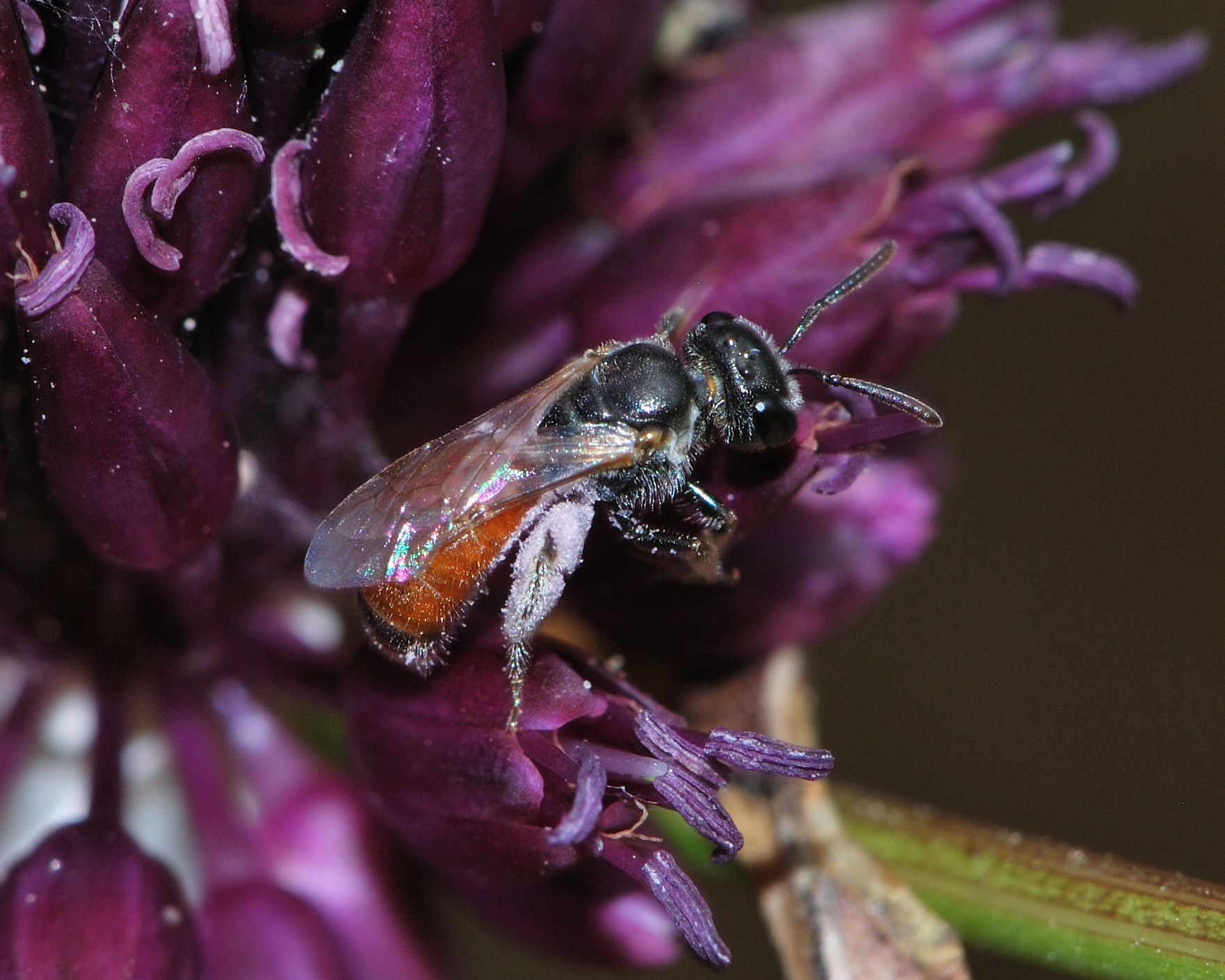 Lasioglossum pseudosphecodimorphum, female foraging on Allium phanerantherum, Nahal Kelah, Mount Carmel, Israel, June 29, 2011.